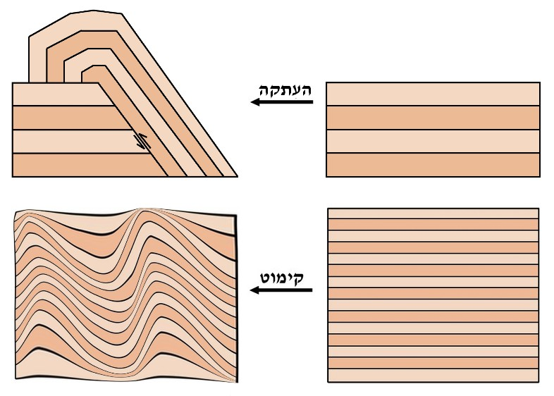 Formation of Nappes